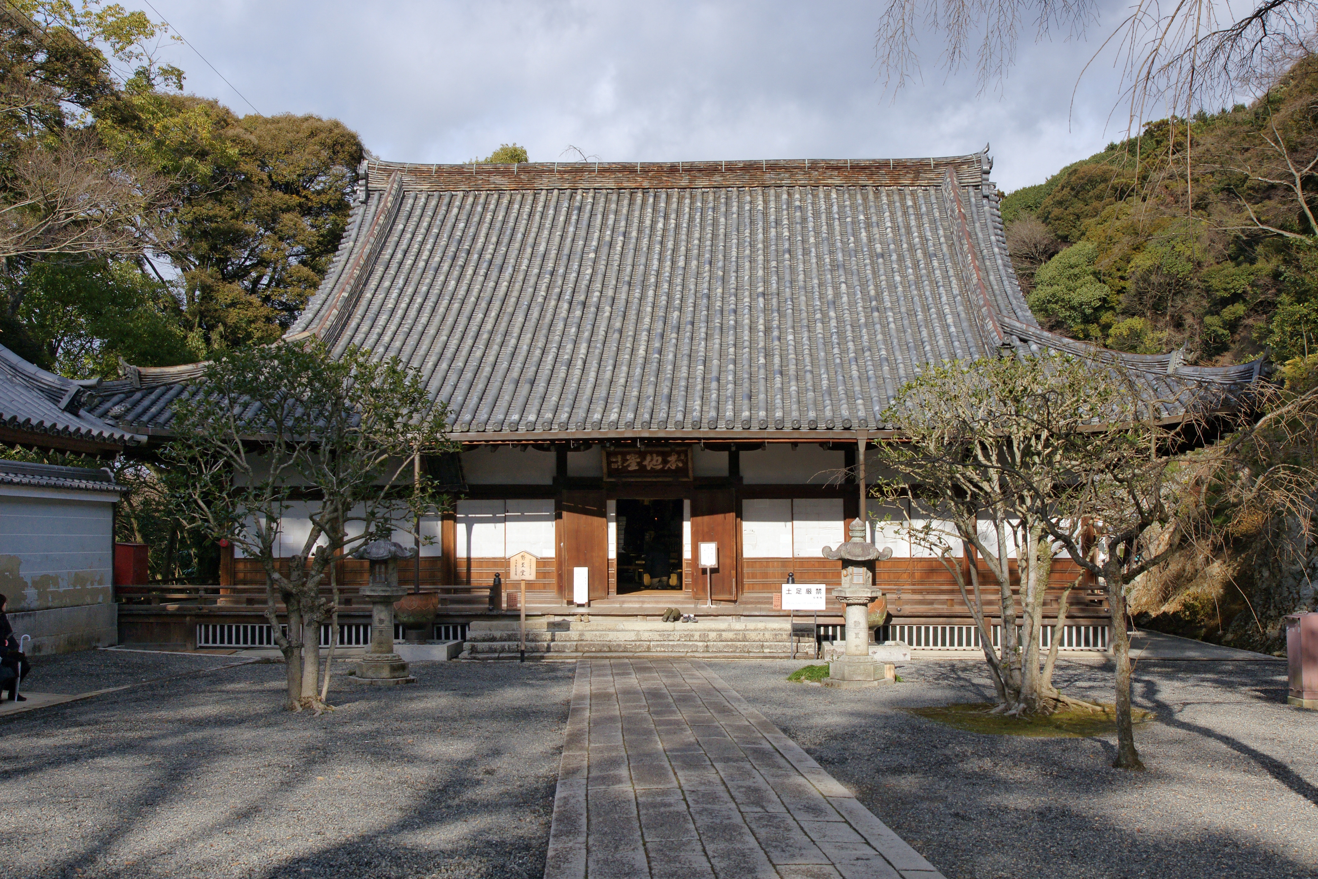 Chion-in, Kyoto, Kyoto Prefecture, Japan